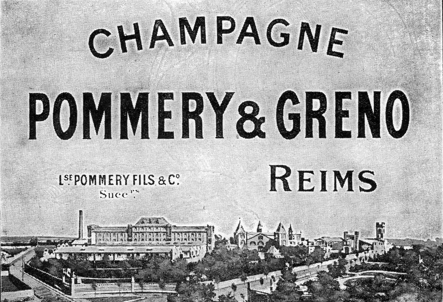 Pommery_&_Greno advertisement of 1923